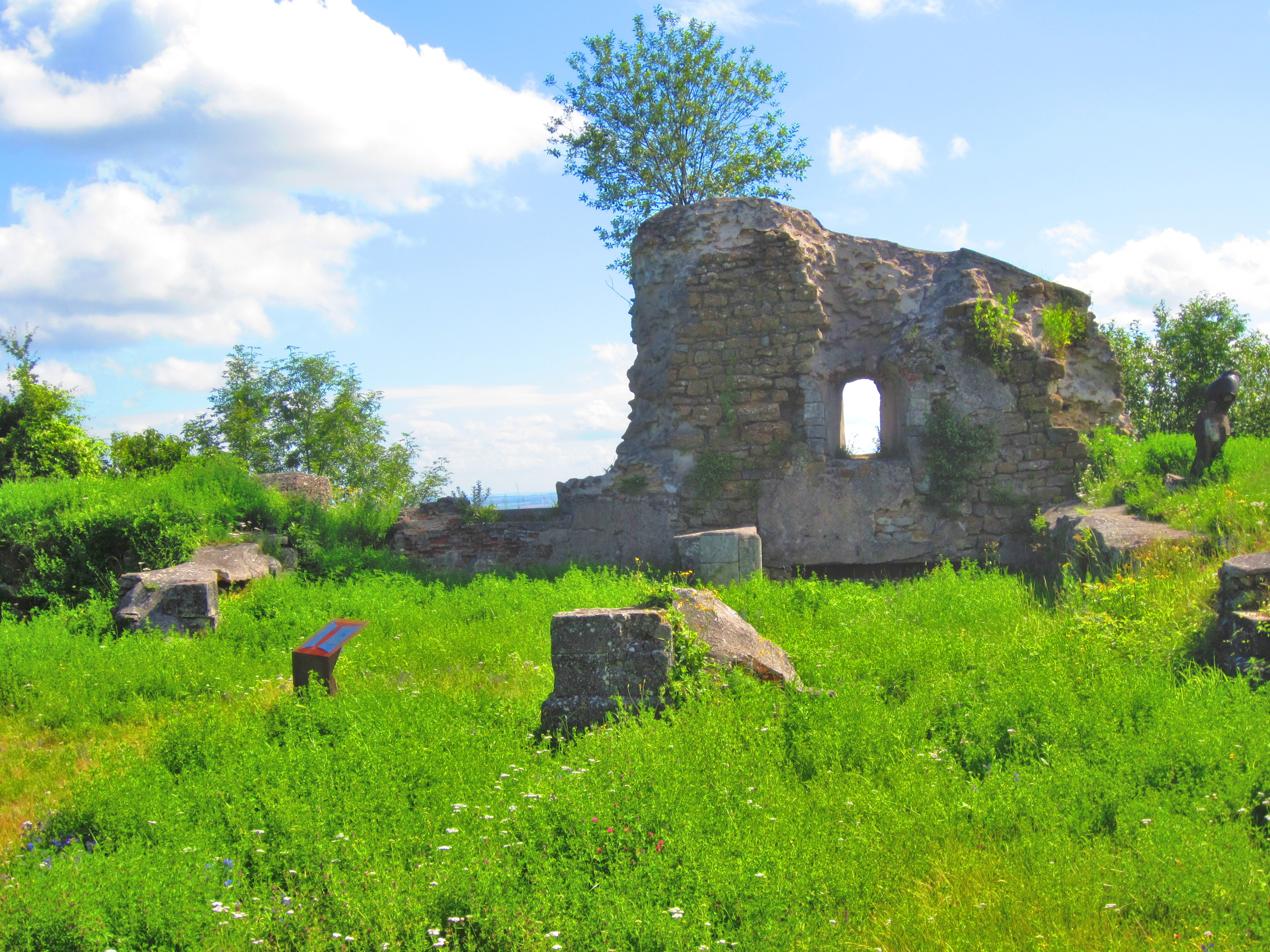 Mousson castel chapel